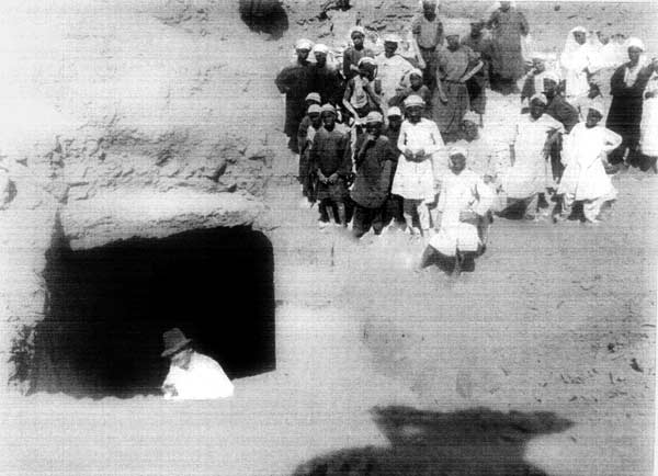 Entrance to Horemheb's tomb, soon after discovery. Arthur E. P. B. Weigall is seen in the entrance